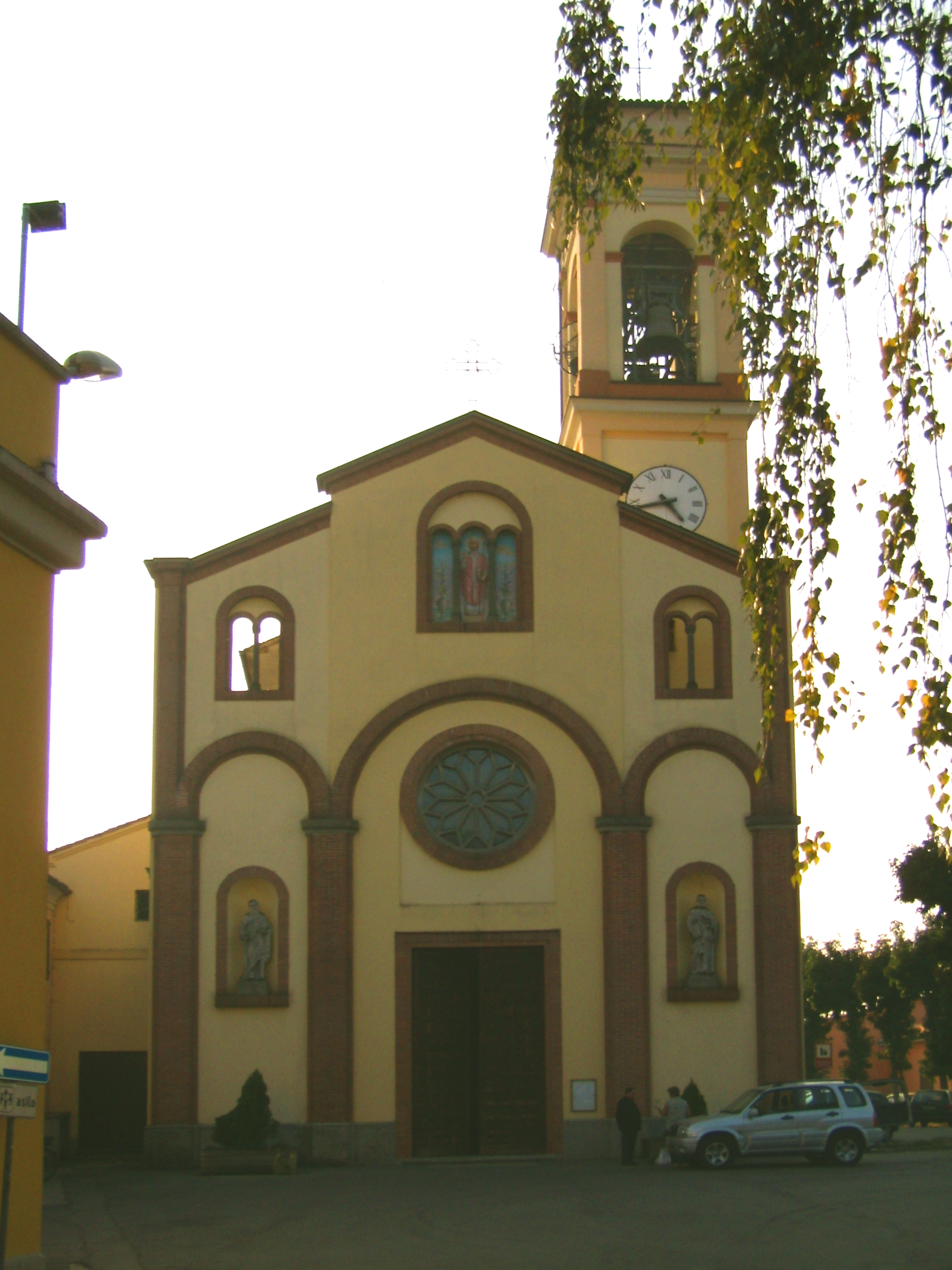 San Martino church in Capergnanica (CR), Italy